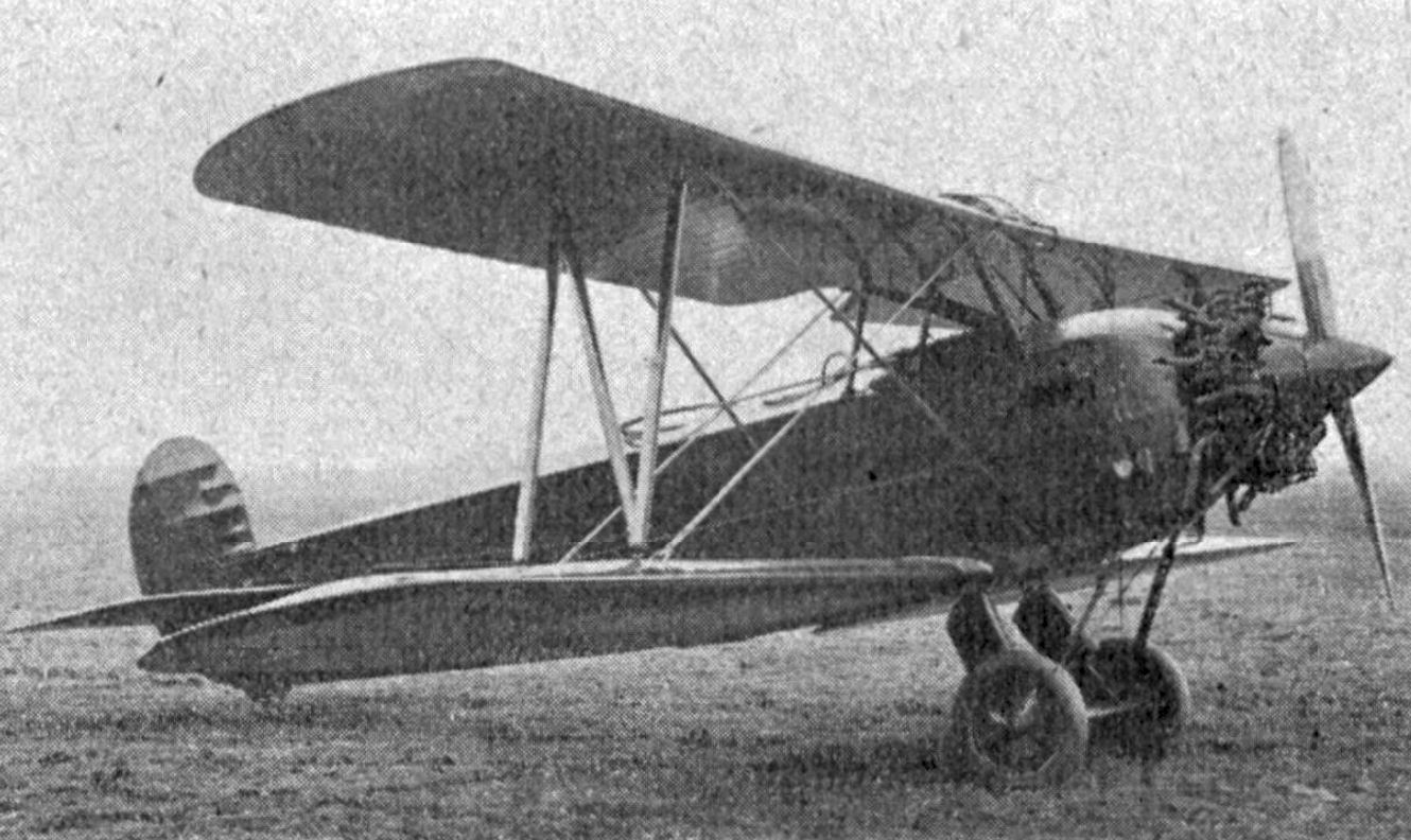 Avia BH-28 photo from L'Aéronautique June,1927